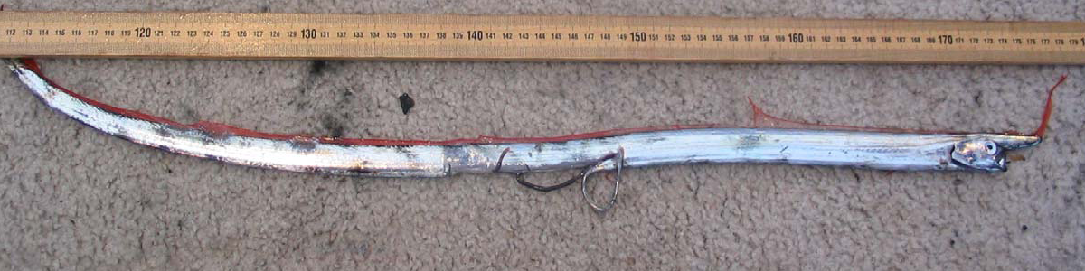 Unicorn crestfish (Eumecichthys fiski)